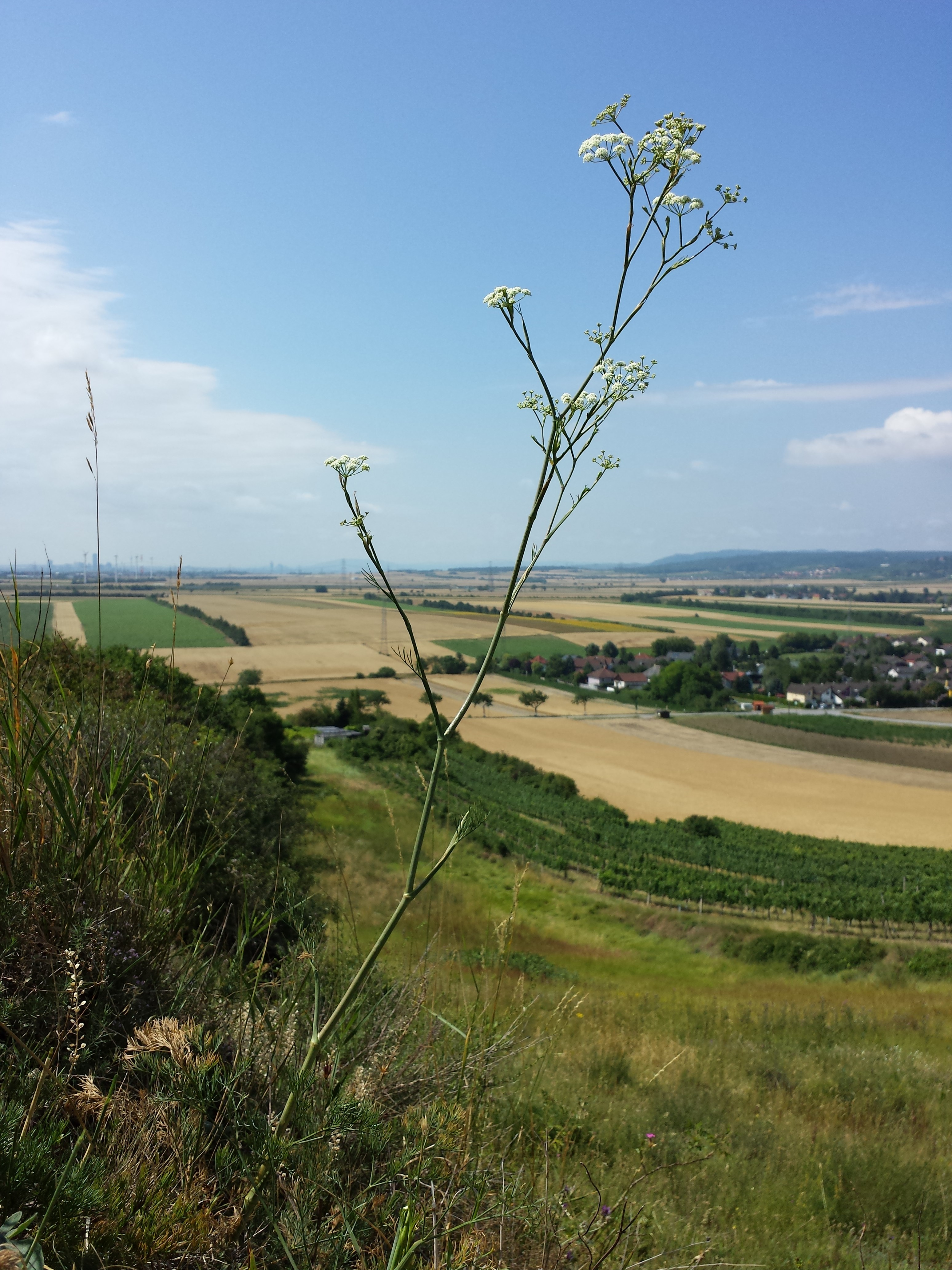 Habitus Taxon: Seseli pallasii (sensu Fischer et al. EfÖLS 2008 ISBN 978-3-85474-187-9) Location: Loess hill to the west of Großebersdorf, district Mistelbach, Lower Austria - ca. 220 m a.s.l. Habitat: dry grassland on Loess